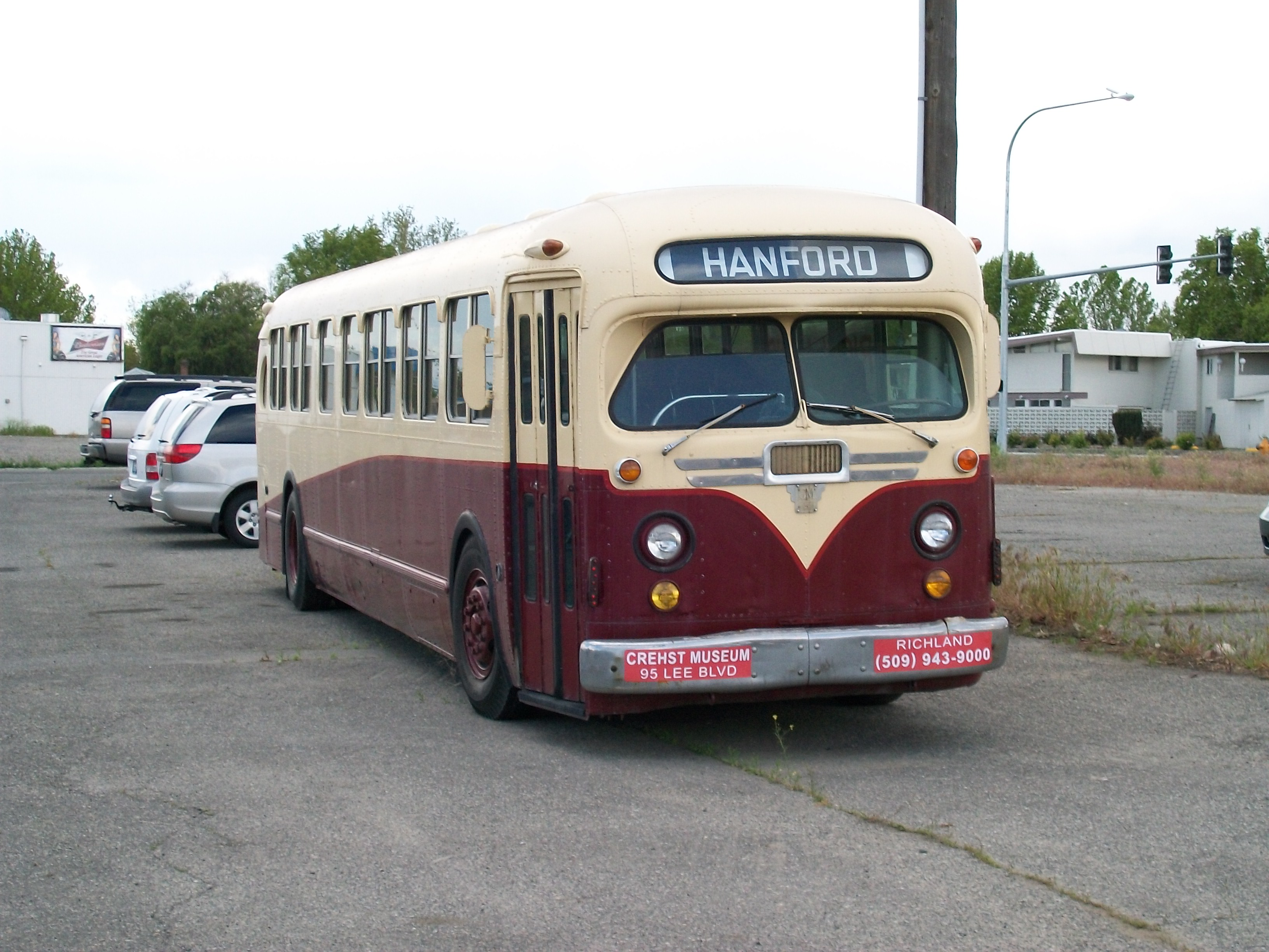 A GM bus at the CREHST(Columbia River Exhibition of History, Science & Technology) Museum in Richland, Washington.